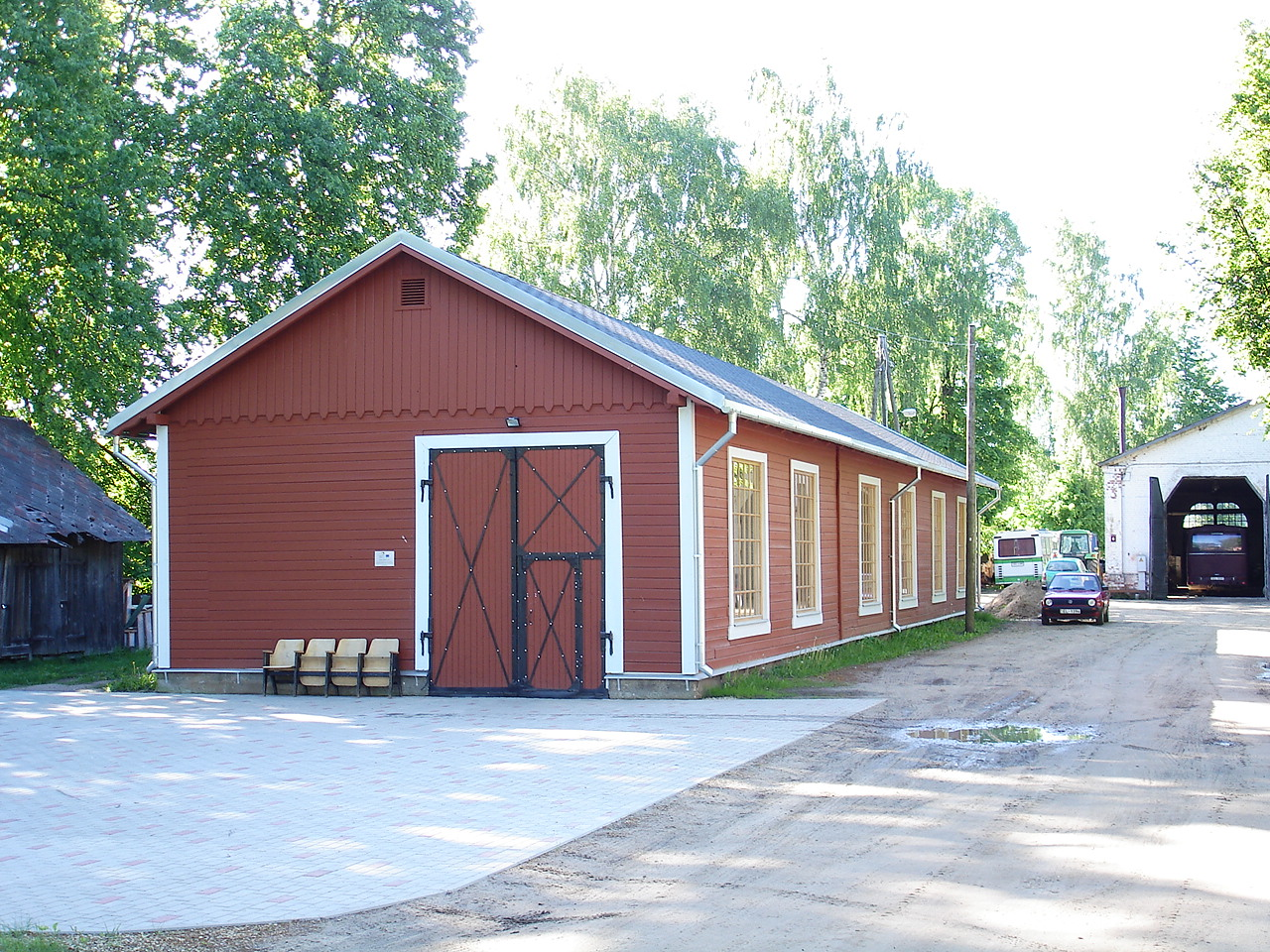 depo